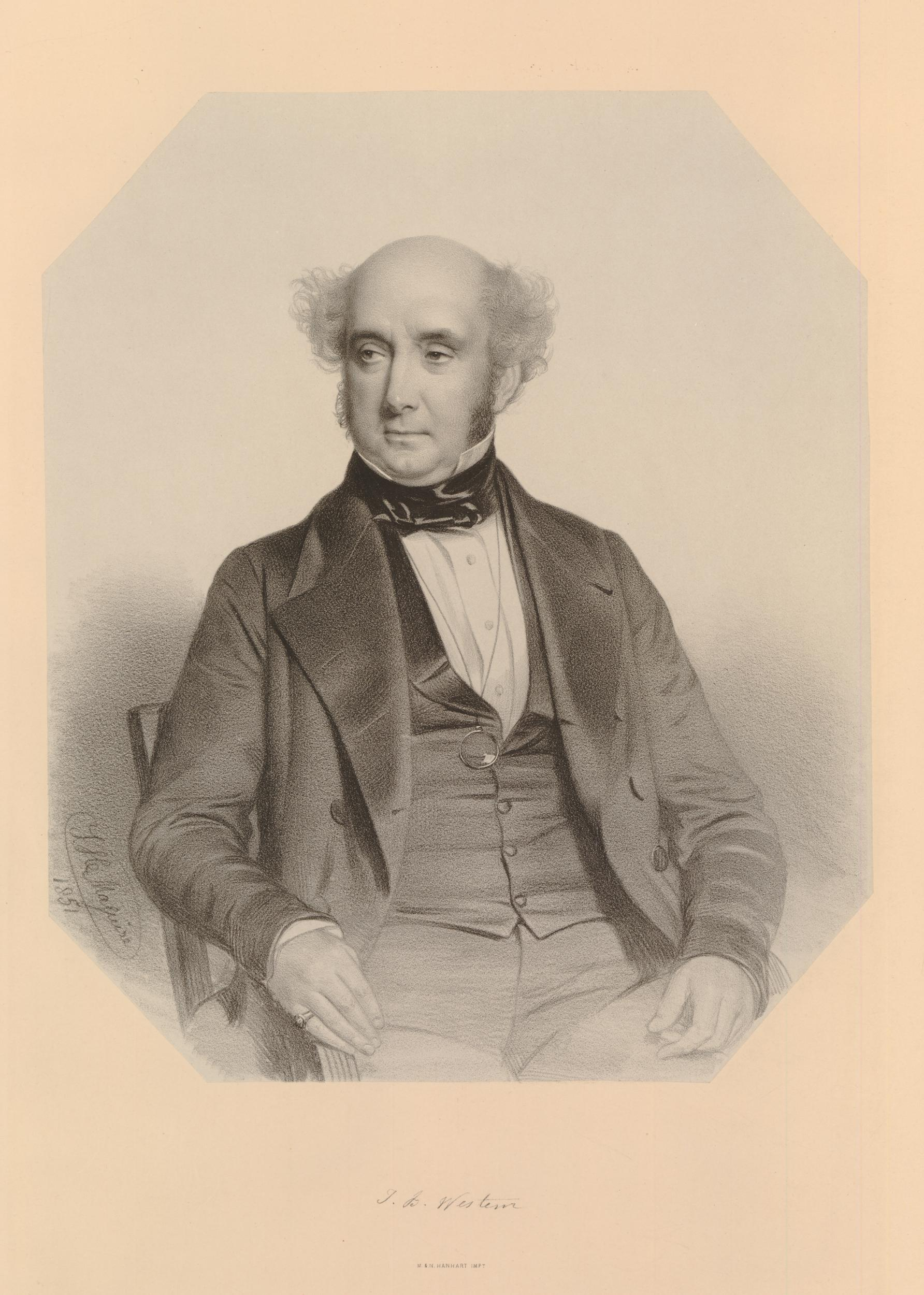 Portrait of Sir Thomas Burch Western, three-quarter length, sitting in chair to right, face turned and looking to the left, wearing ring on small finger of his right hand, monocle hanging from his neck. 1851 Lithograph on octagonal chine collé